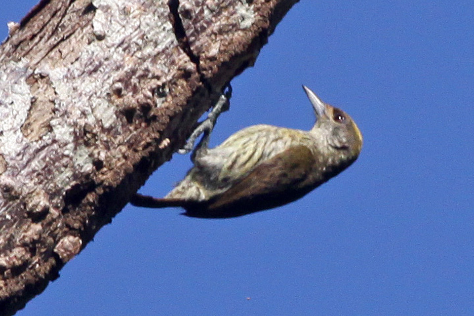 Los Haitises National Park